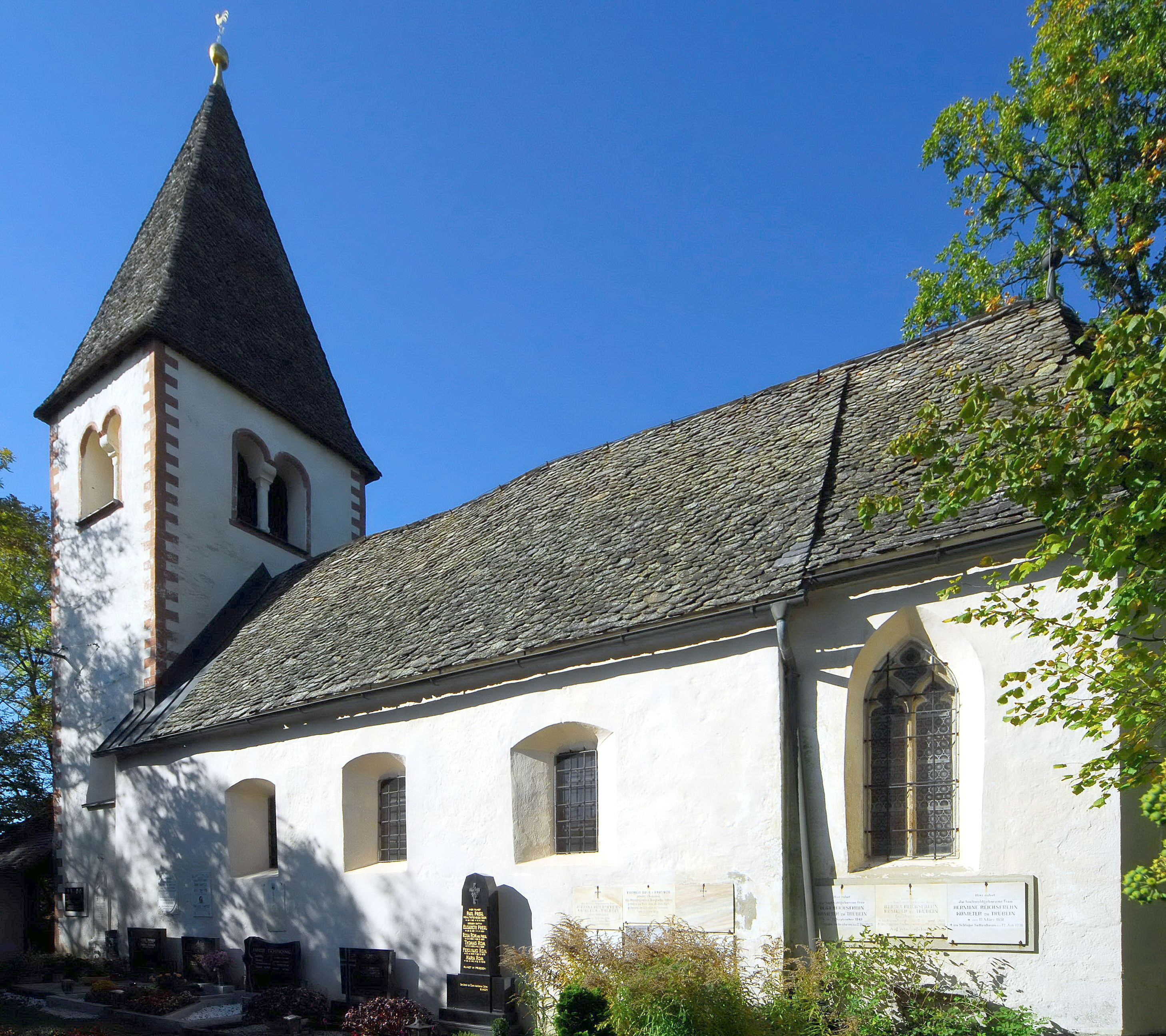 Subsidiary church Saint Andrew in Seltenheim, 14th district Woelfnitz, municipality Klagenfurt am Wörthersee, Carinthia, Austria, EU